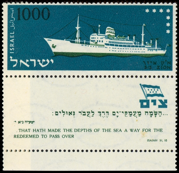 Navigation stamp - 1000 mil - S/S Zion